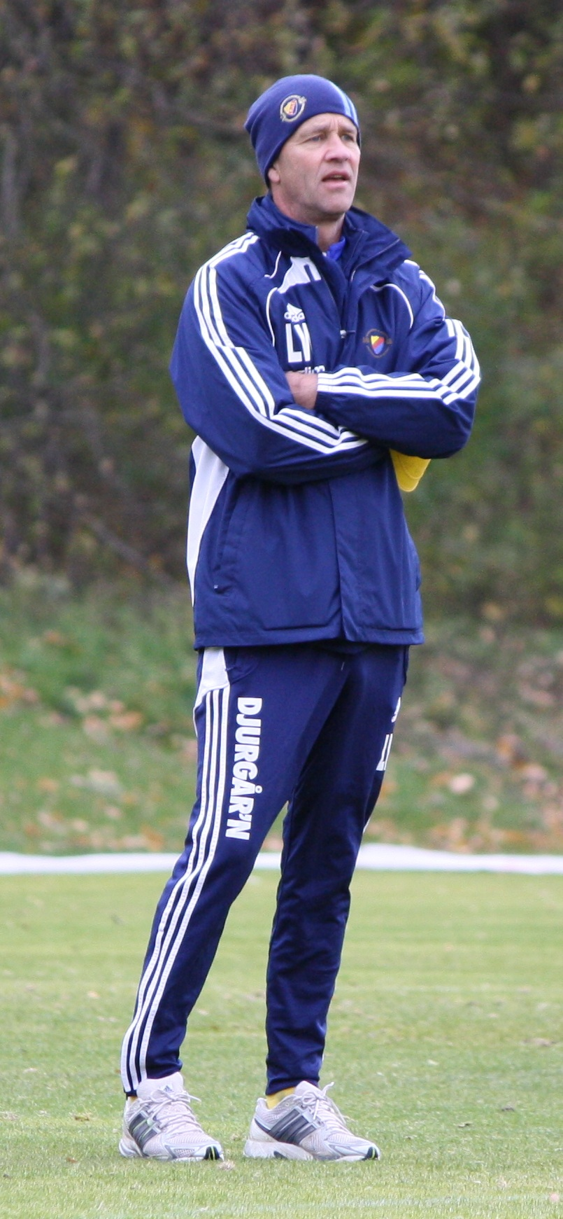 Swedish football coach Lennart Wass.